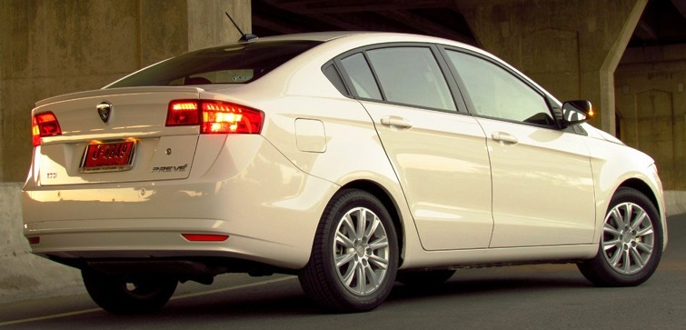 A photo of the rear end of the 2013 Proton Prevé CFE Turbo in Thailand.